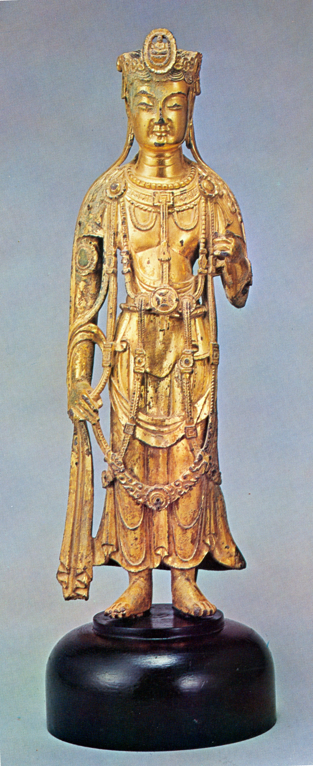 Standing Gilt-bronze Bodhisattva from Seonsan-eup in Gumi, Korea